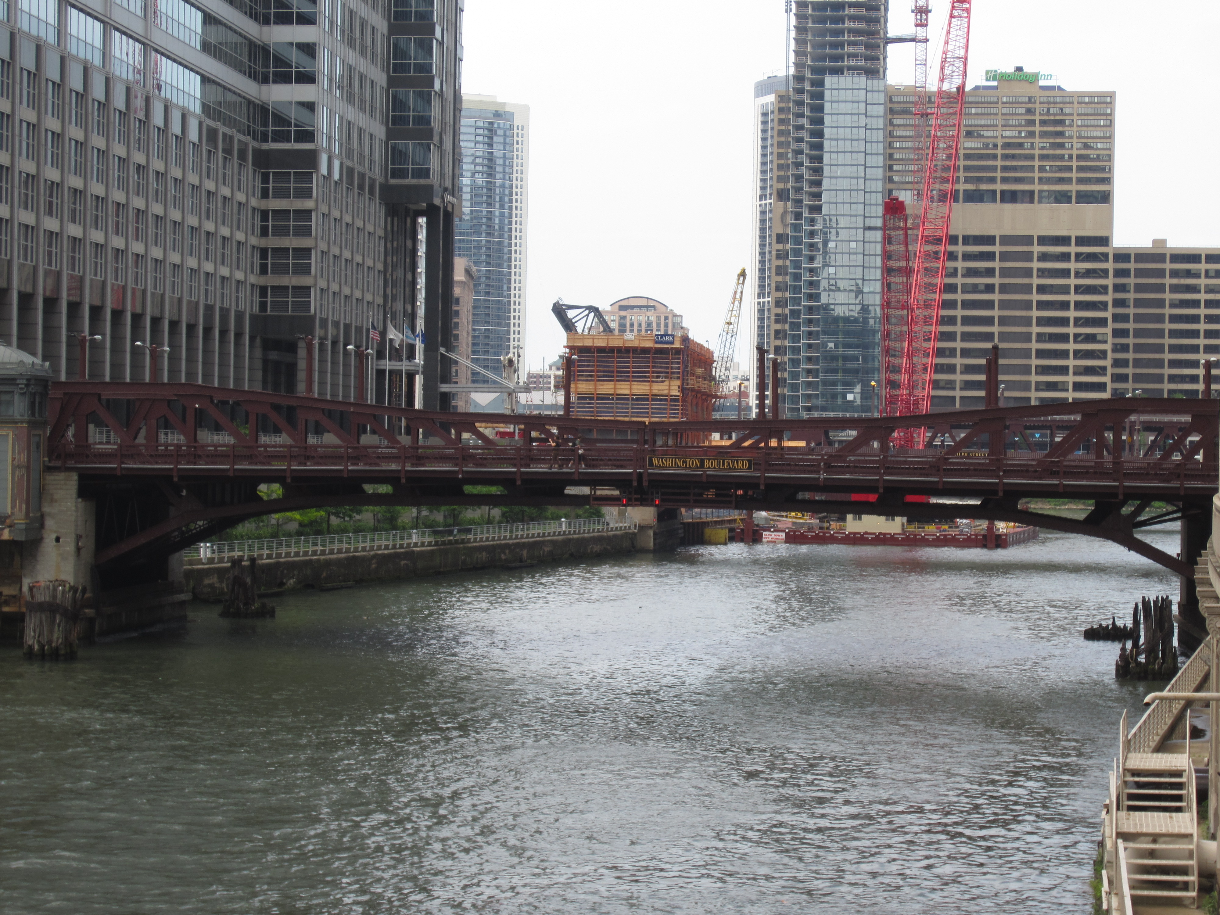 Chicago, Illinois, June 2015